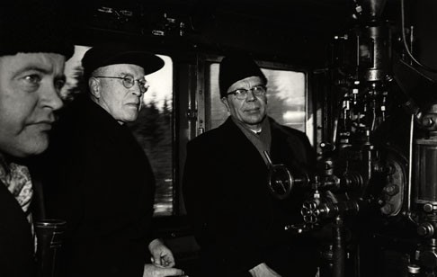 Photograph of the Finnish politicians Wäinö Häkkinen, Rainer von Fieandt and Paavo Kastari in a train (locomotive).